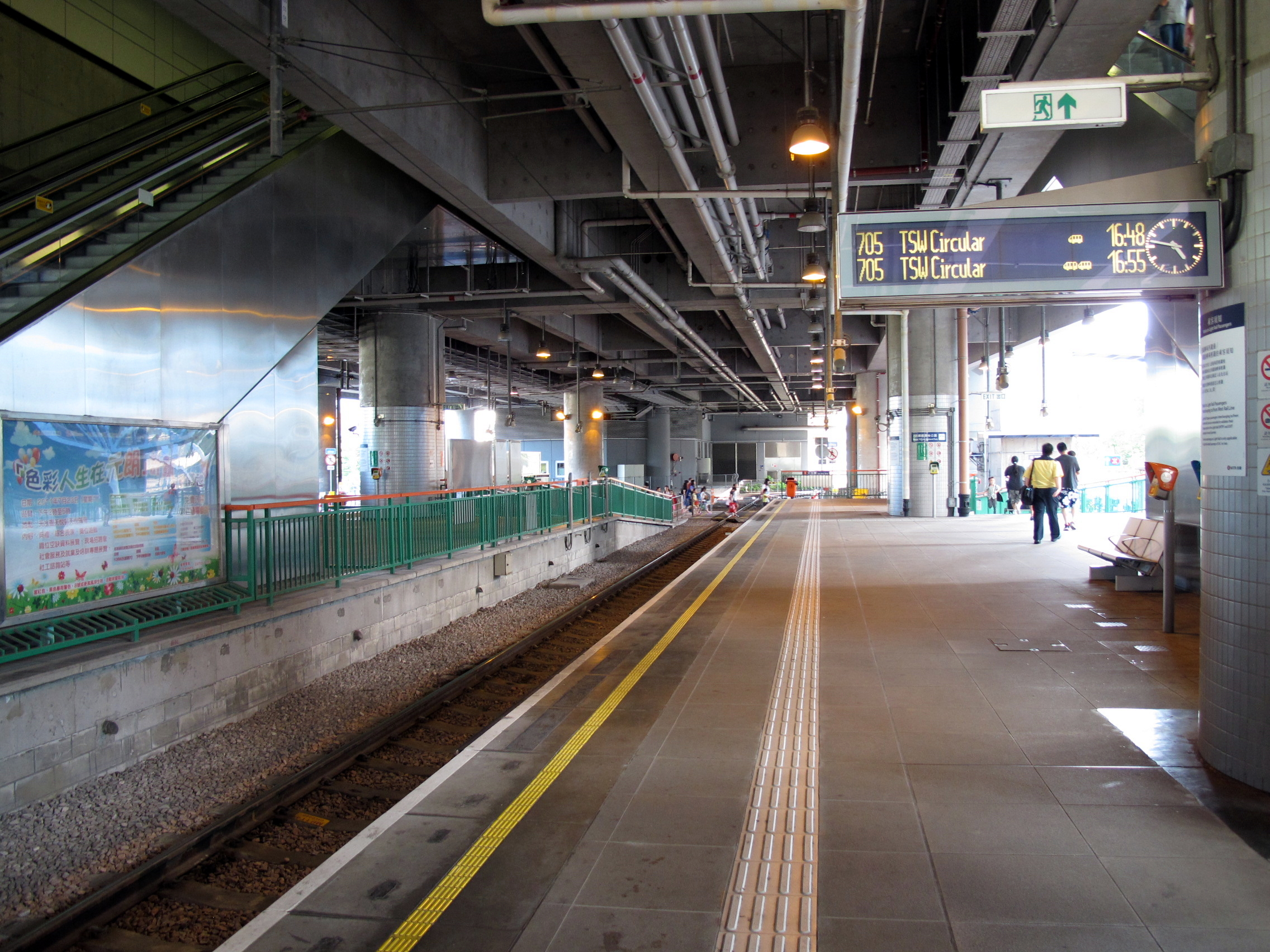 Tin Shui Wai Station LRT Platform